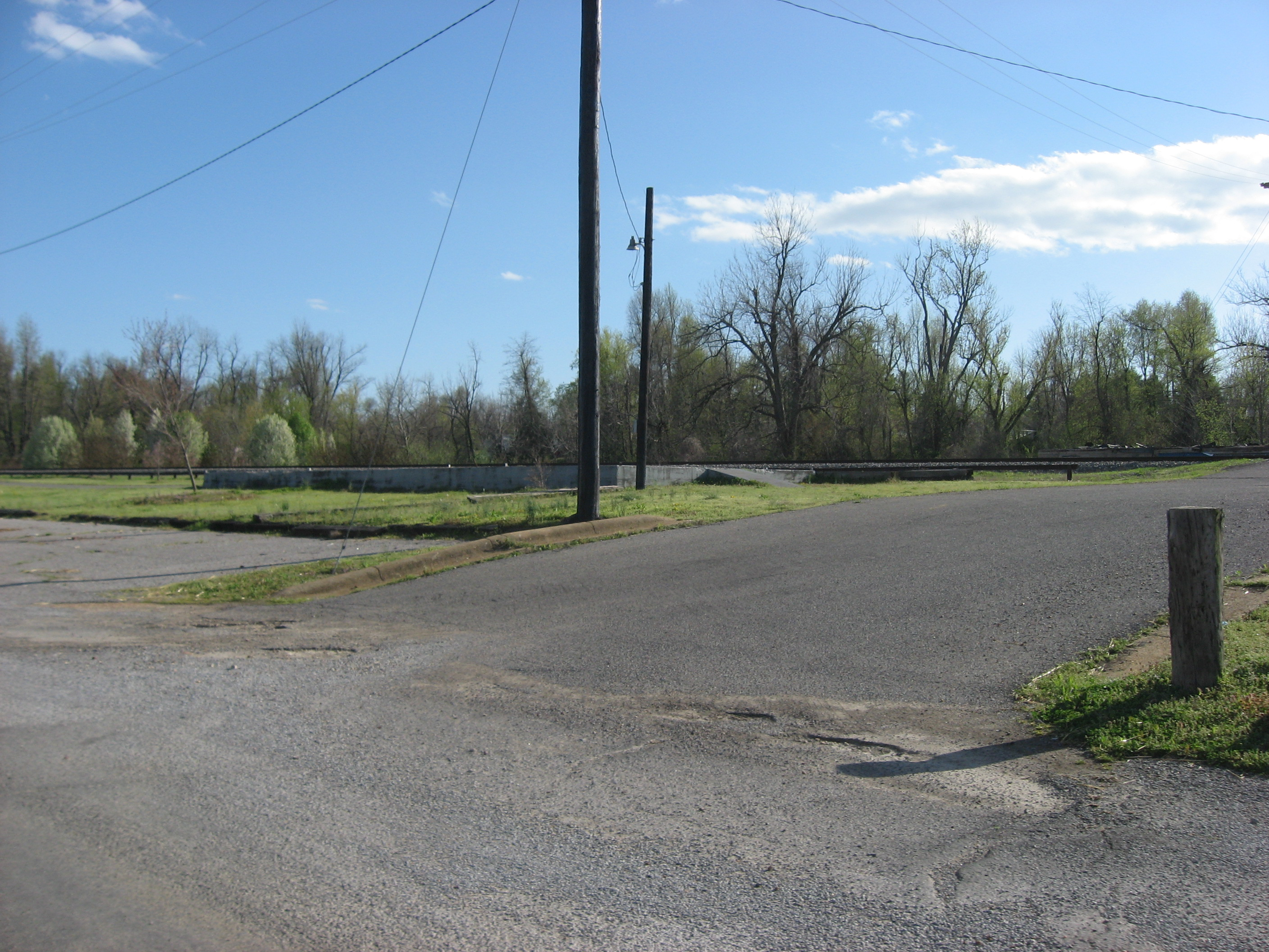 Overview of the site of the former Illinois Central Railroad Station and Freight Depot along Front Street in Bardwell, Kentucky, United States. Built in 1890, the depot was listed on the National Register of Historic Places in 1976; although destroyed, it has not yet been removed from the Register.